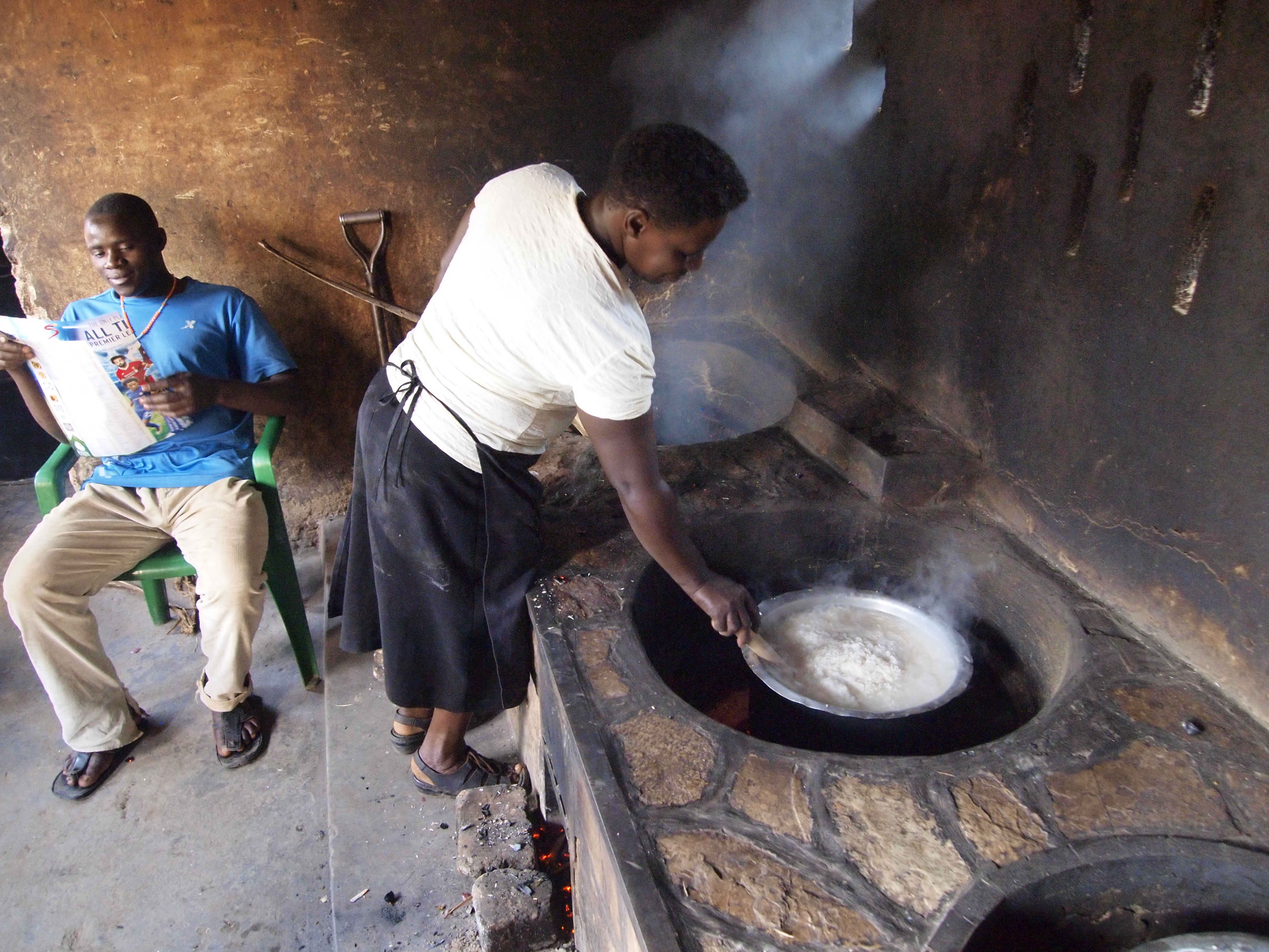 showing people cooking